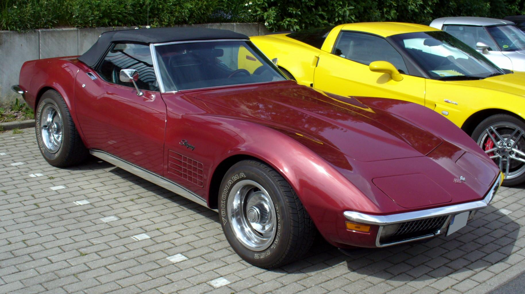 1970 Chevrolet Corvette C3 Convertible